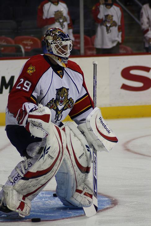 Tomáš Vokoun, Florida Panthers